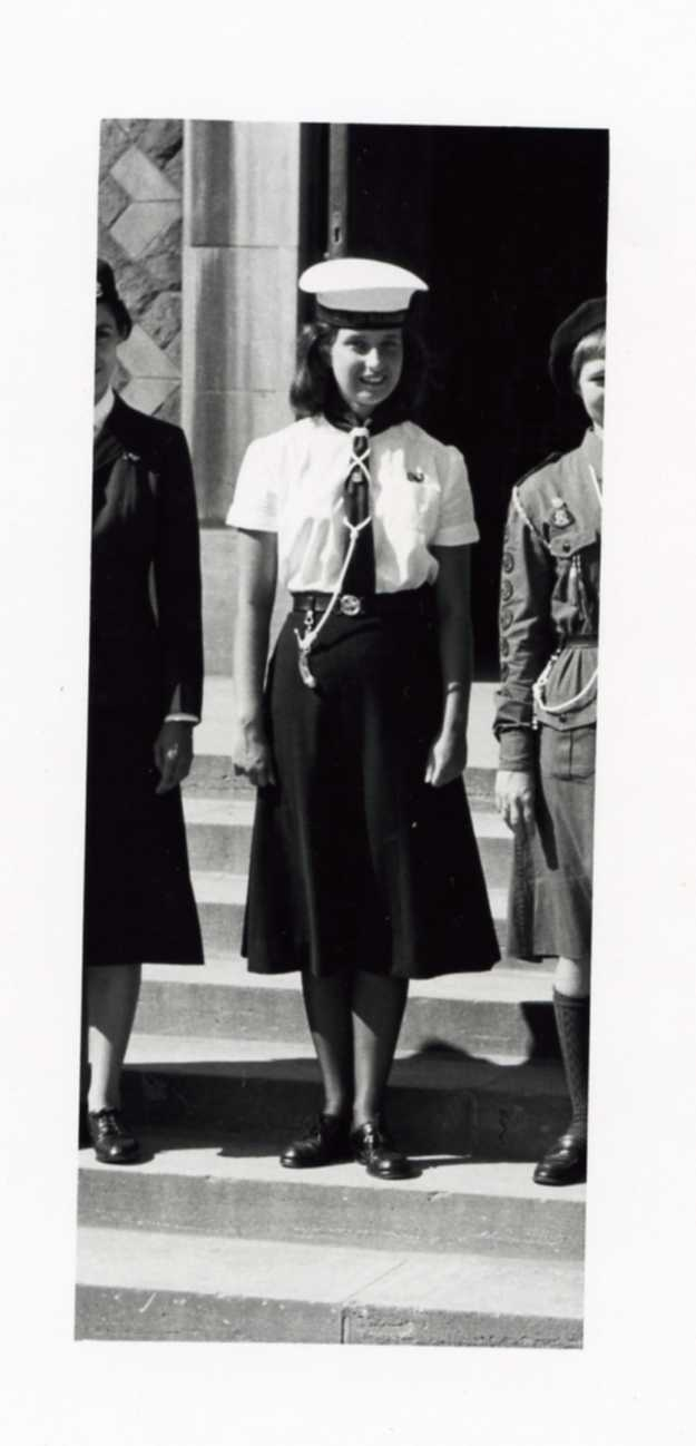 Sea Ranger Uniform Canada circa 1958